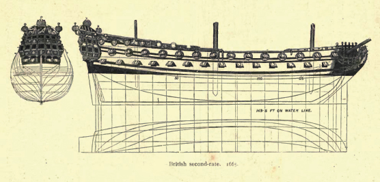 Illustration of an English Second Rate - 1665